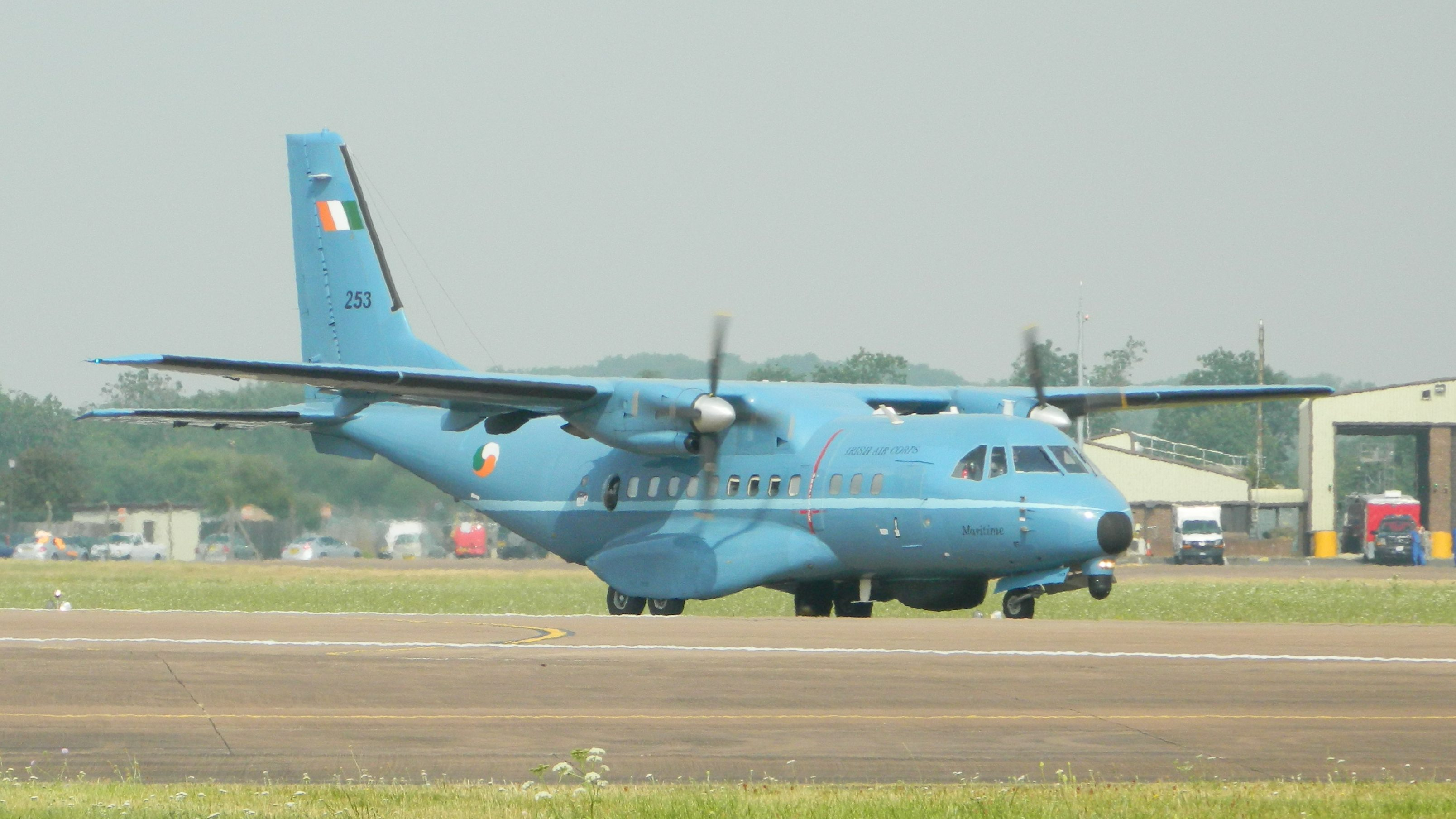 Irish Air Corps CASA CN 235 serial number 253 departs RAF Fairford on the Royal International Air Tattoo departure day Monday 22 July 2013.